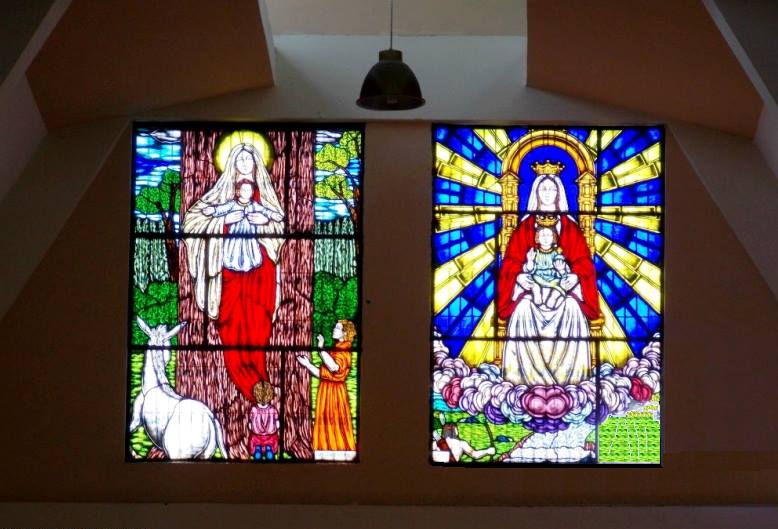 Acarigua-Araure Catholic cathedral portuguesa State in Venezuela ph2